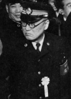 Uchida Hyakken (1889 - 1971, writer) in Tōkyō Station as the one-day honorary stationmaster.